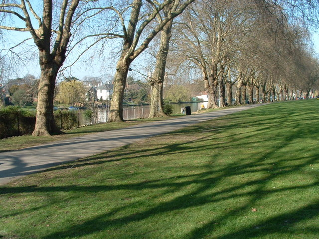 Canbury Gardens Kingston Upon Thames From here a lovely walk to Richmond